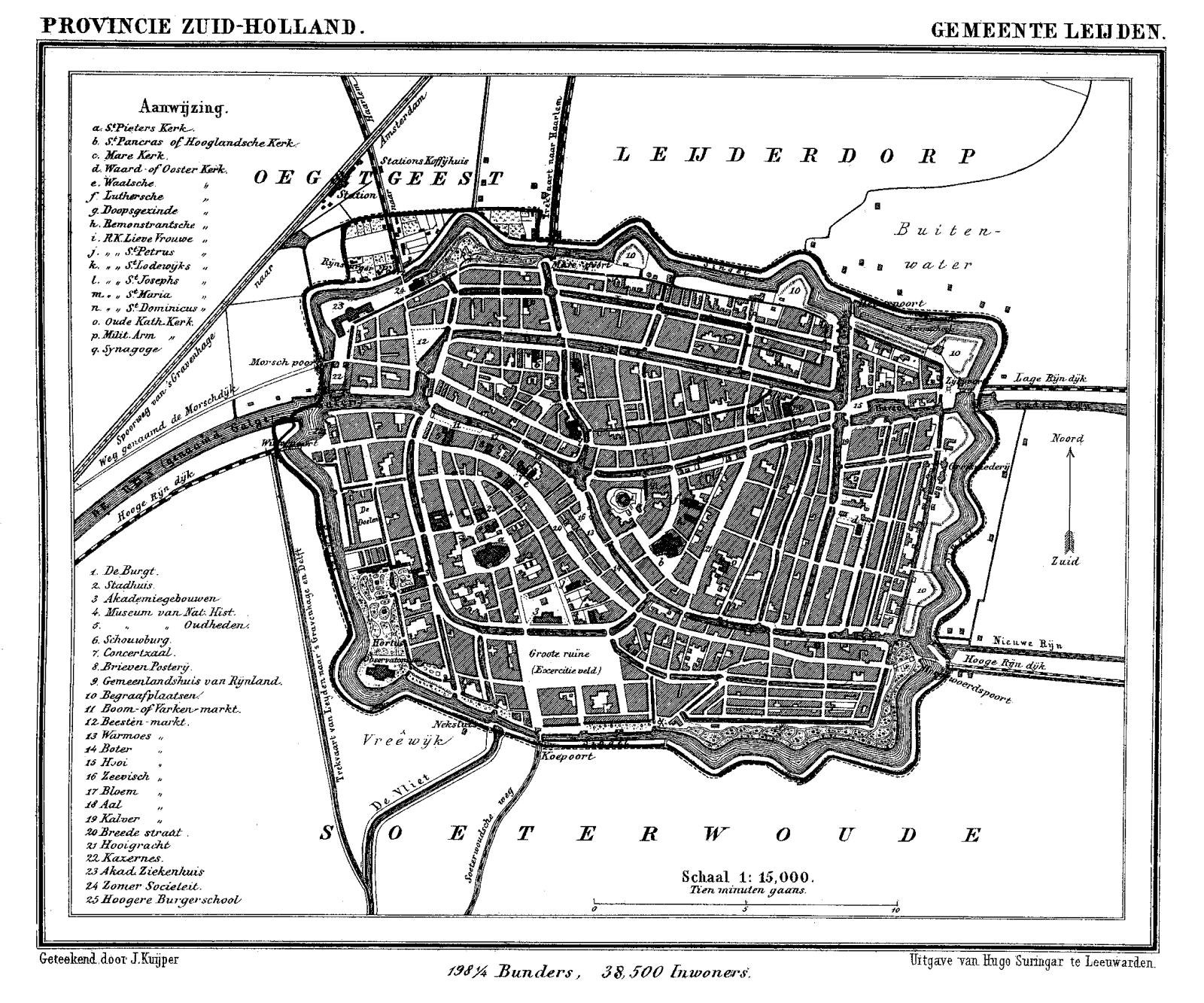 Historic map of Leiden, the Netherlands